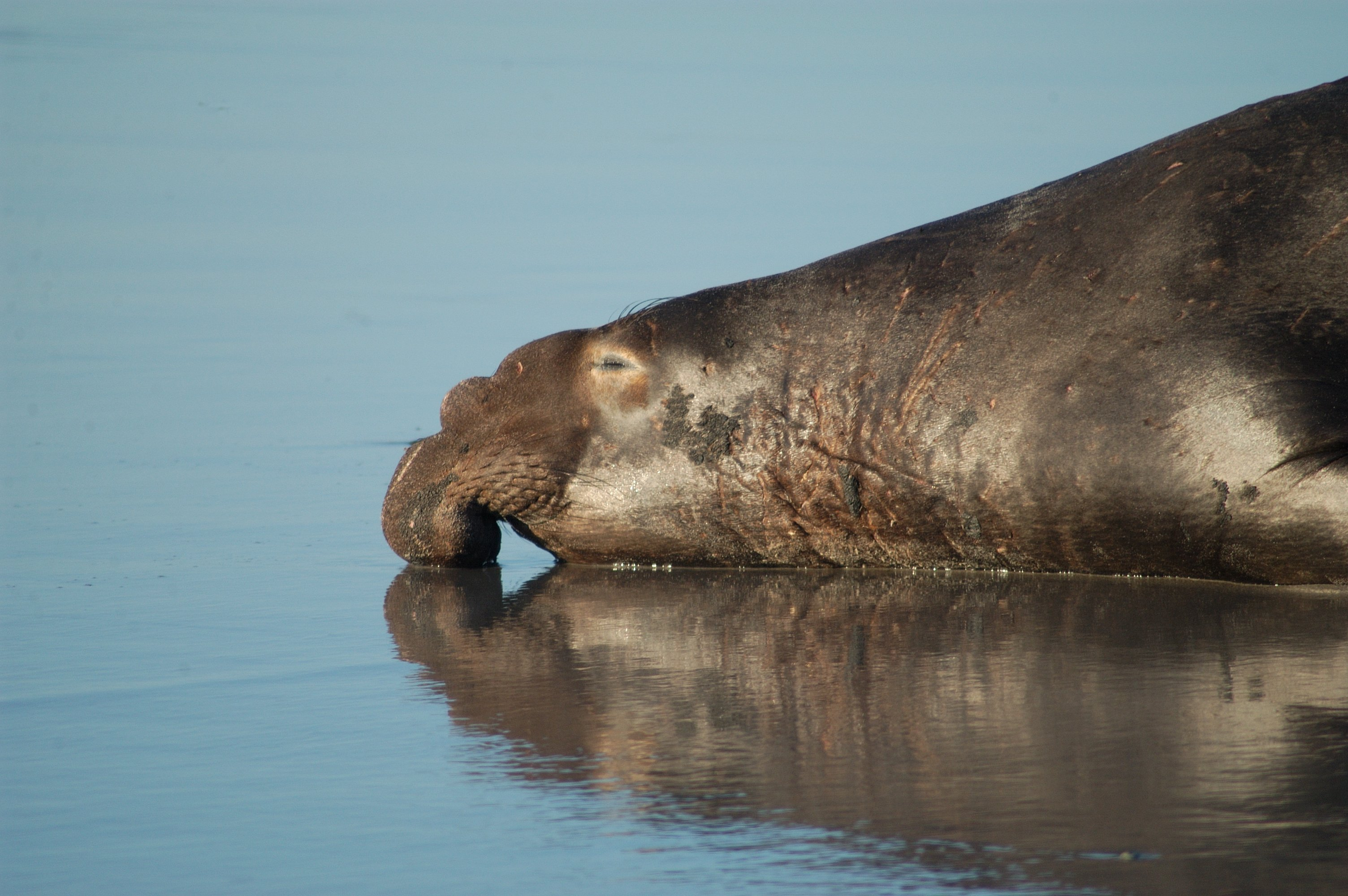 An elephant seal from NOAA [1]